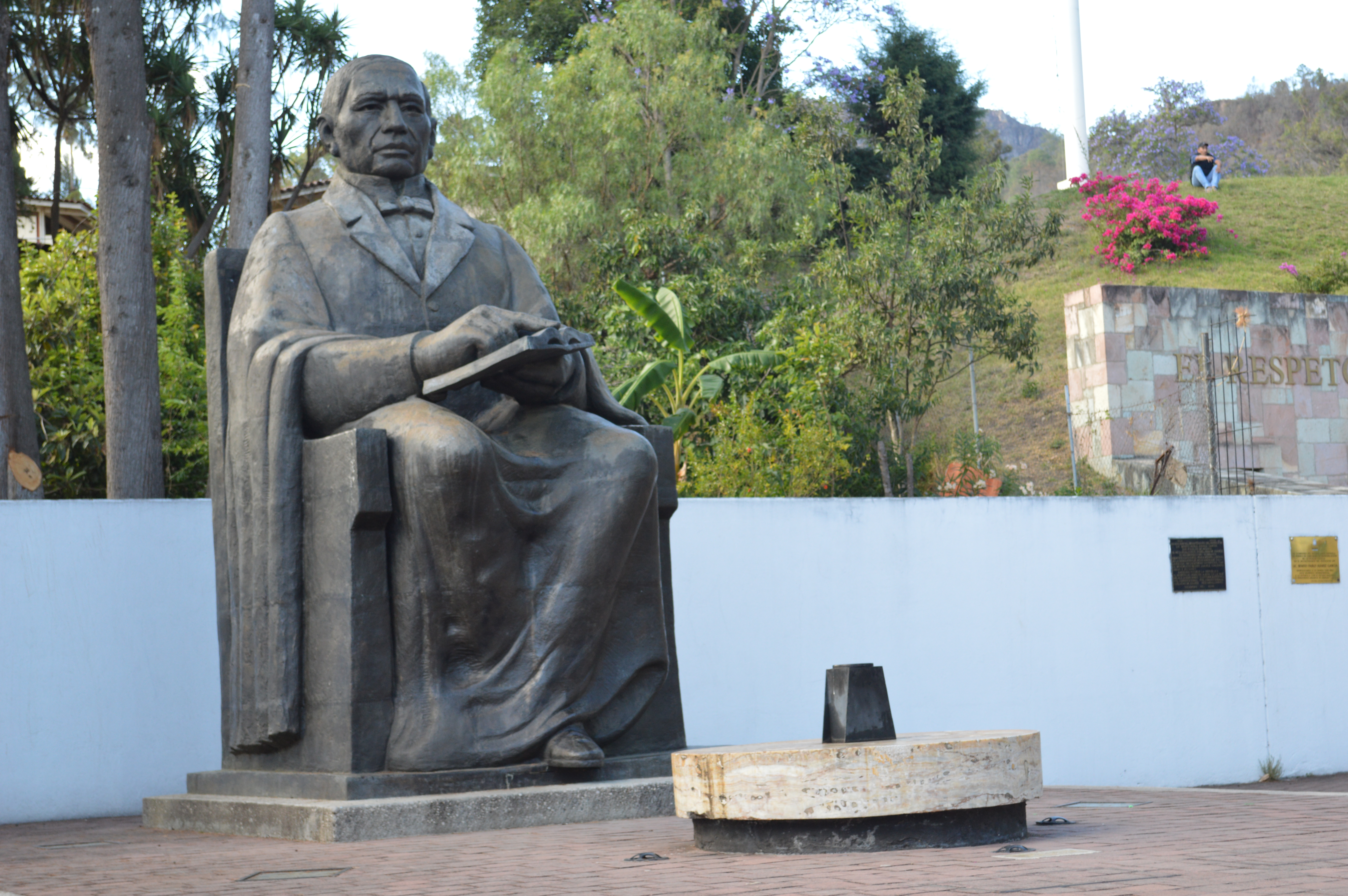 Monument to Benito Juarez in Guelatao, Oaxaca